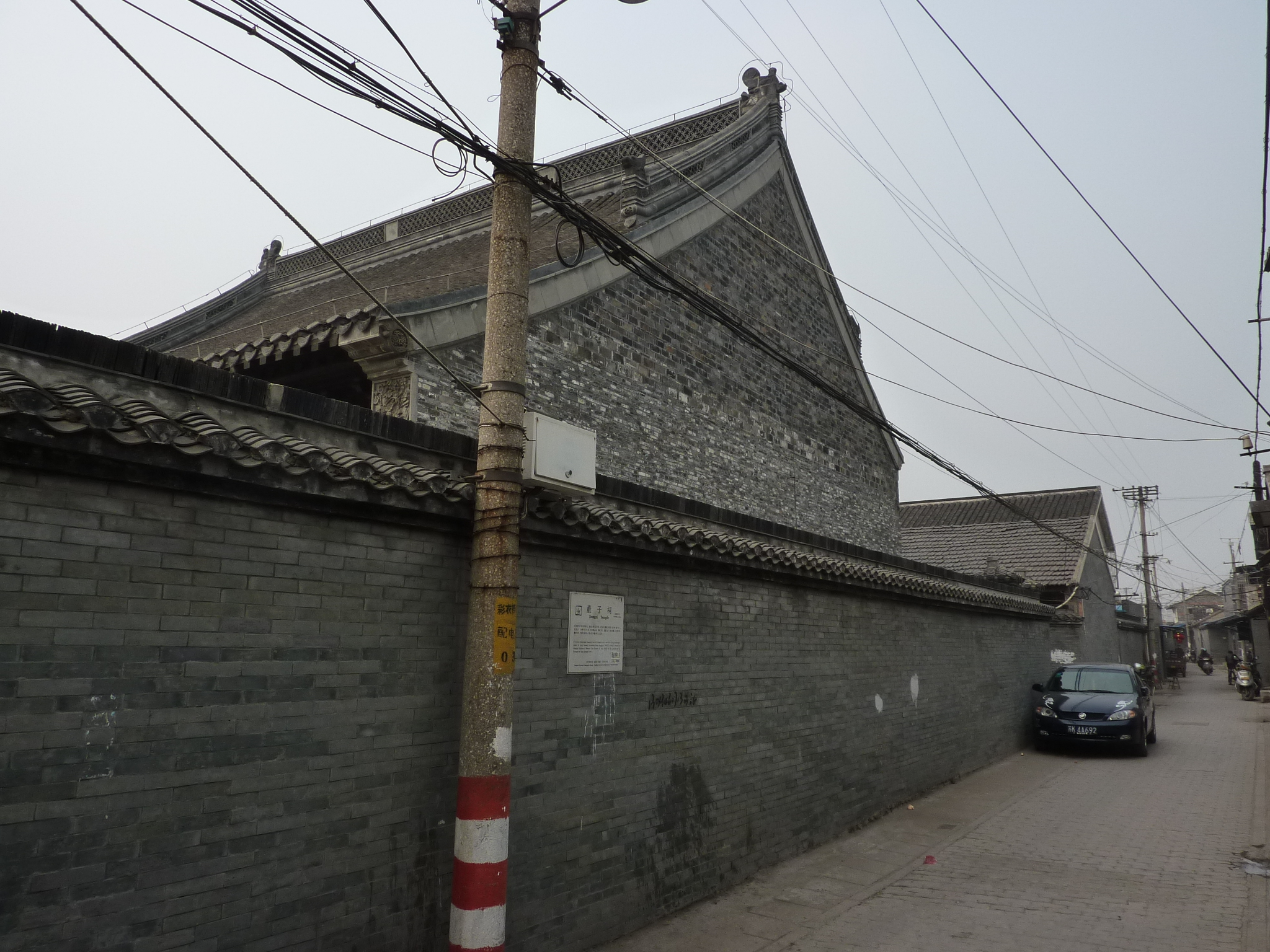 Dong Zhongshu Temple (Dong Zi Ci) in Yangzhou. Located near Qinhuiahe Canal, between Wenchang Rd and Caoyi St